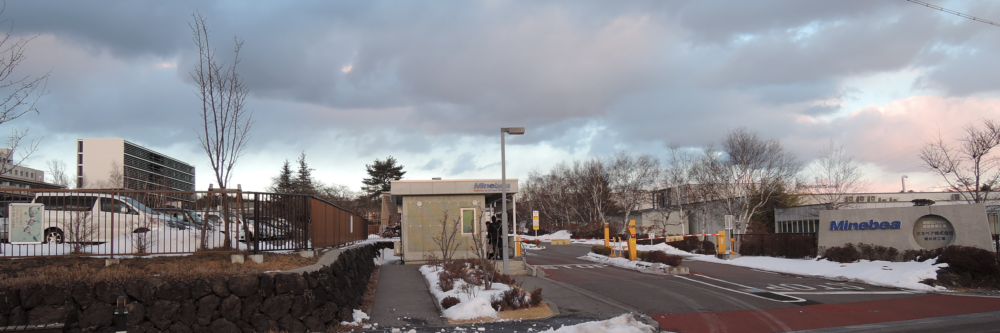 Karuizawa Factory(Headquarters) of Minebea Co., Ltd、Nagano prefecture,Japan